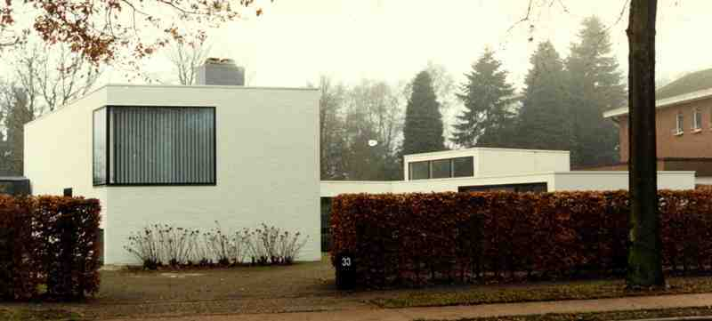 Woning Pleysier-Dries